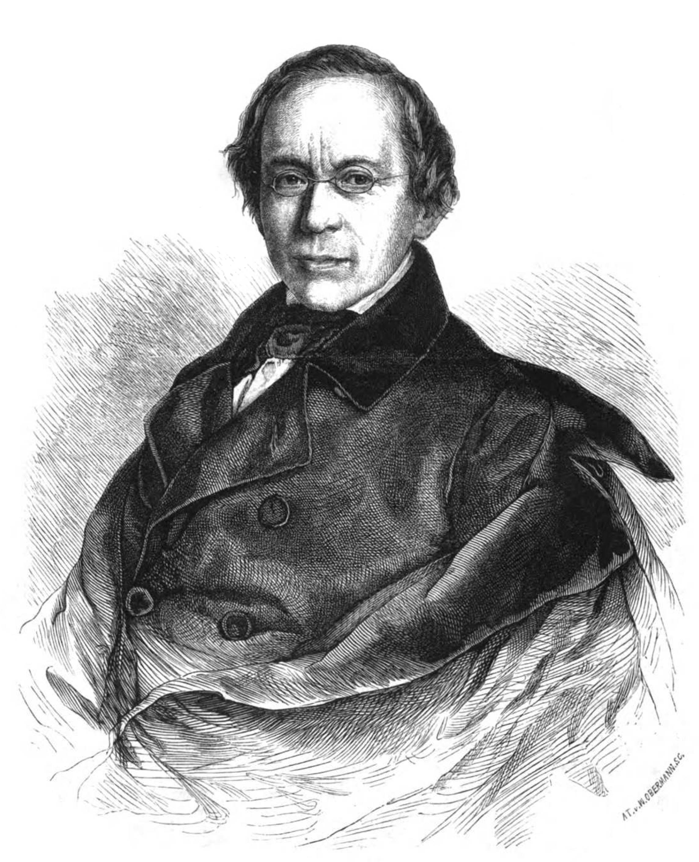 caption: "Heinrich König."